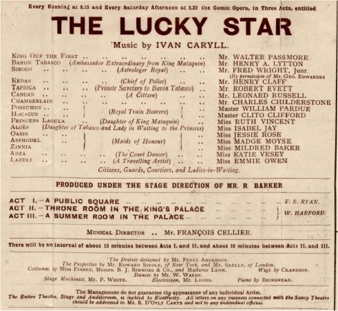 Scan of original Savoy Theatre programme for The Lucky Star from 1899. Public domain.